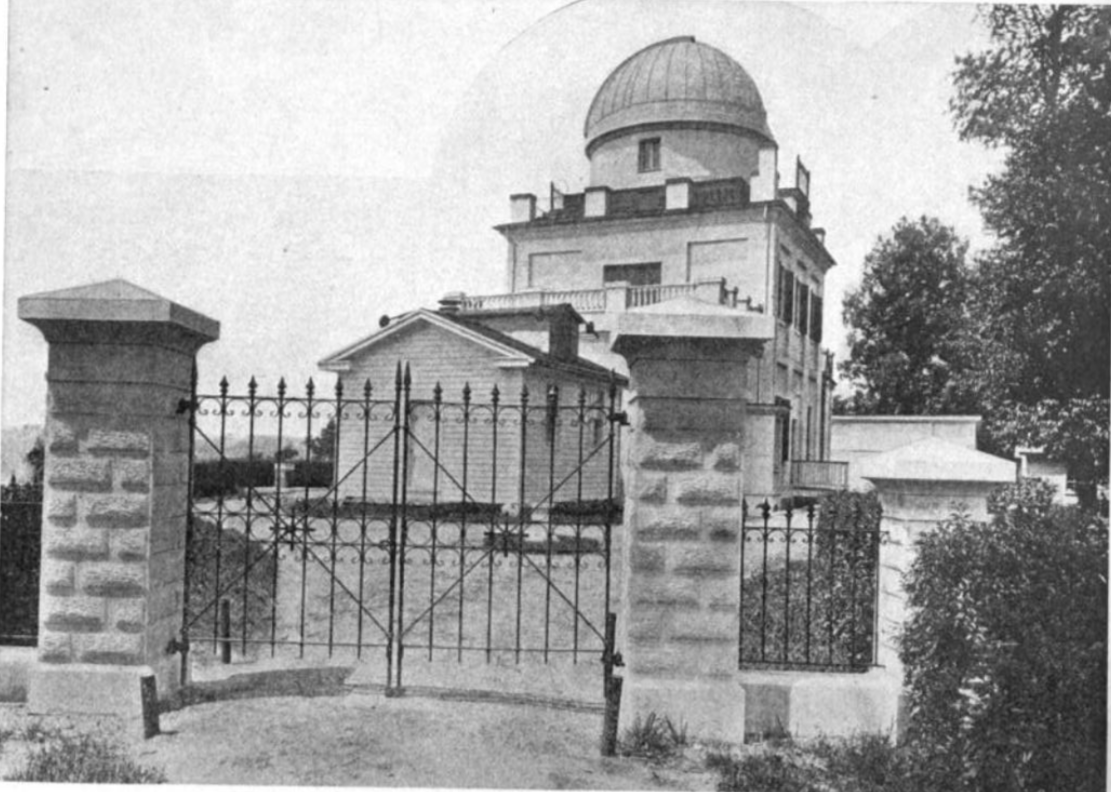 Georgetown University Astronomical Observatory